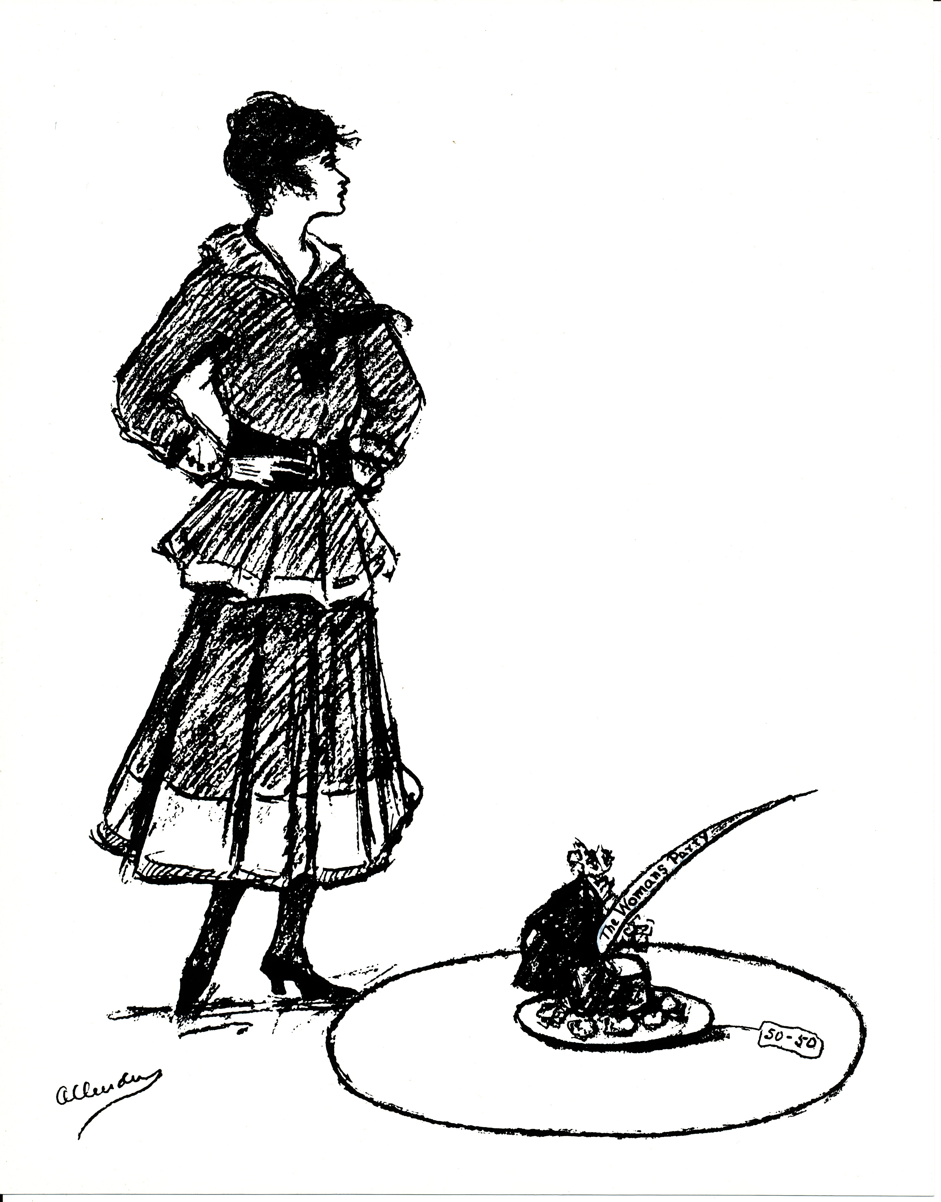 Published in The Suffragist 8 Apr 1916.